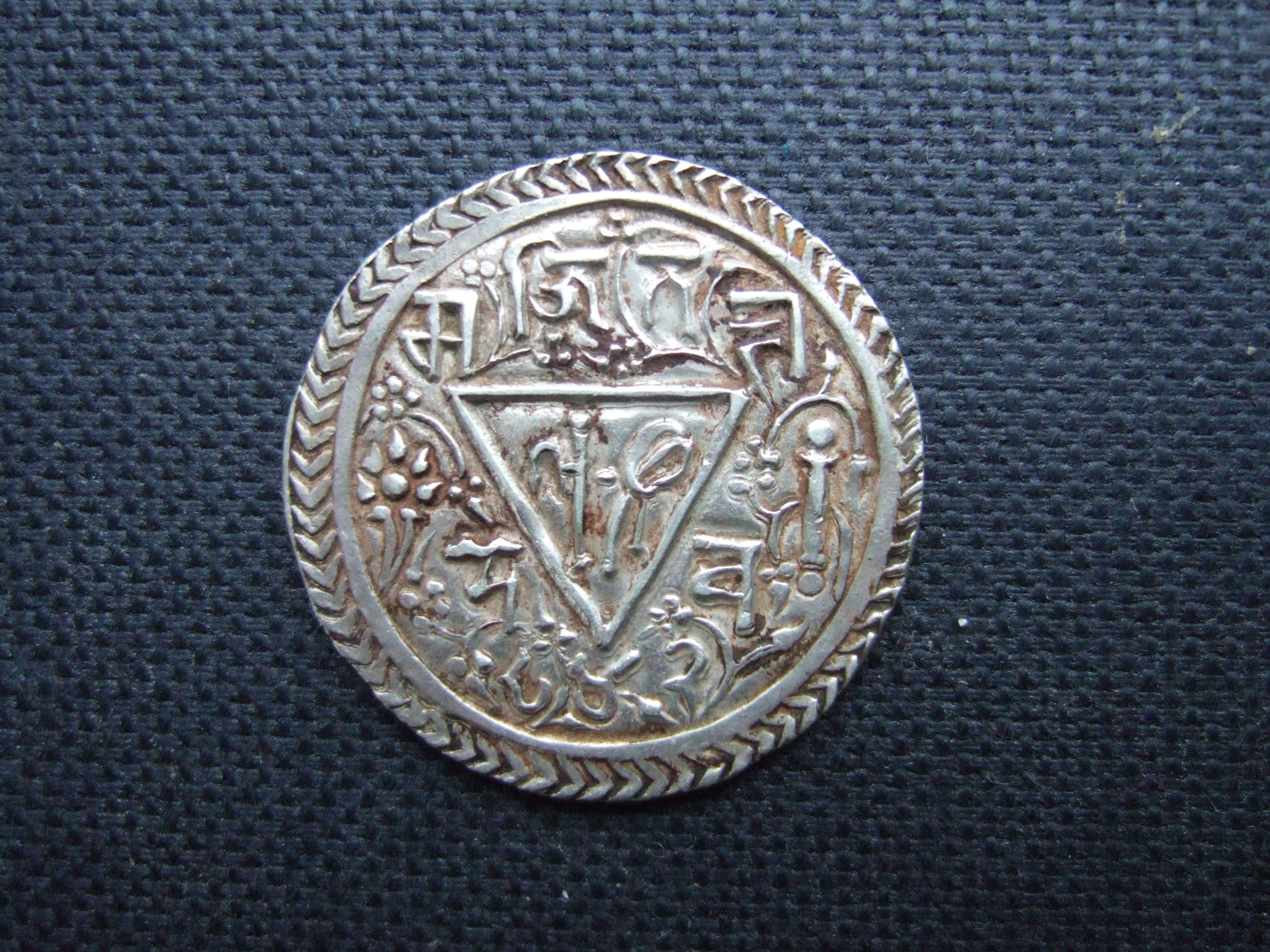 Mohar of king Ranjit Malla of Bhakatapur (Nepal), dated Nepal Samvat 842 (AD 1722), reverse